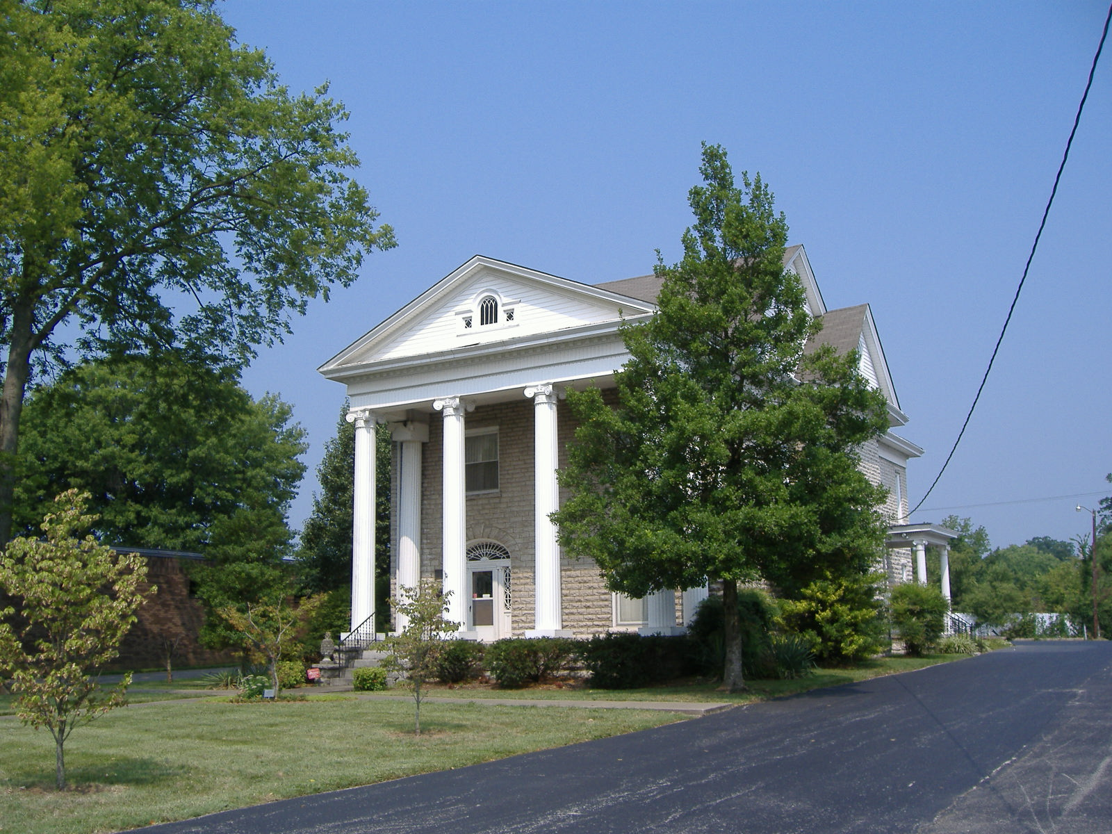 Elouise B. Houchens Center for Women, located in Bowling Green, Kentucky.